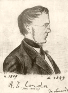 Lloyd, Mycological Notes (1922)